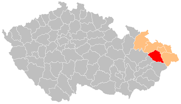 District of Nový Jičín